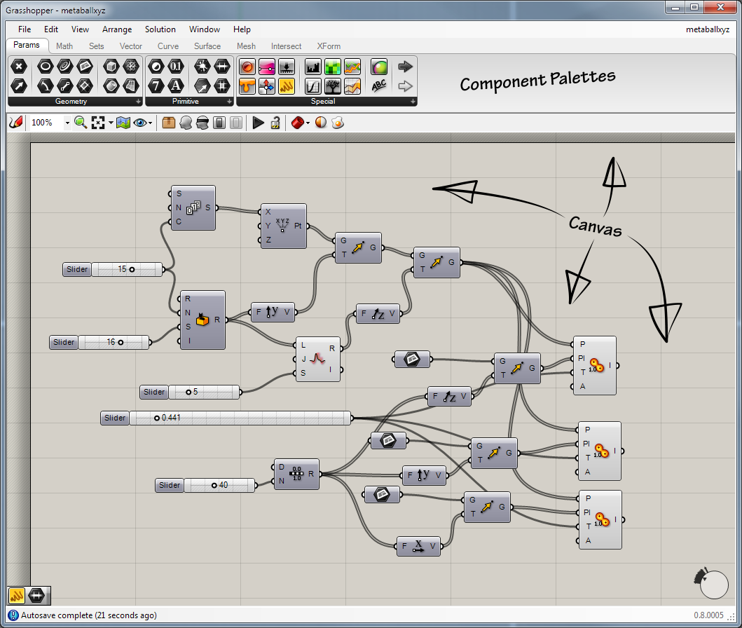 A screen shot of the Grasshopper main window